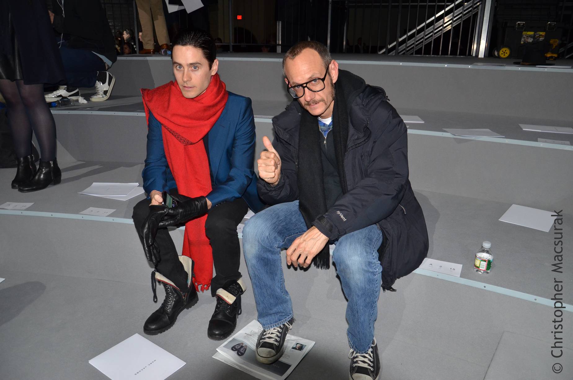 Jared Leto and Terry Richardson